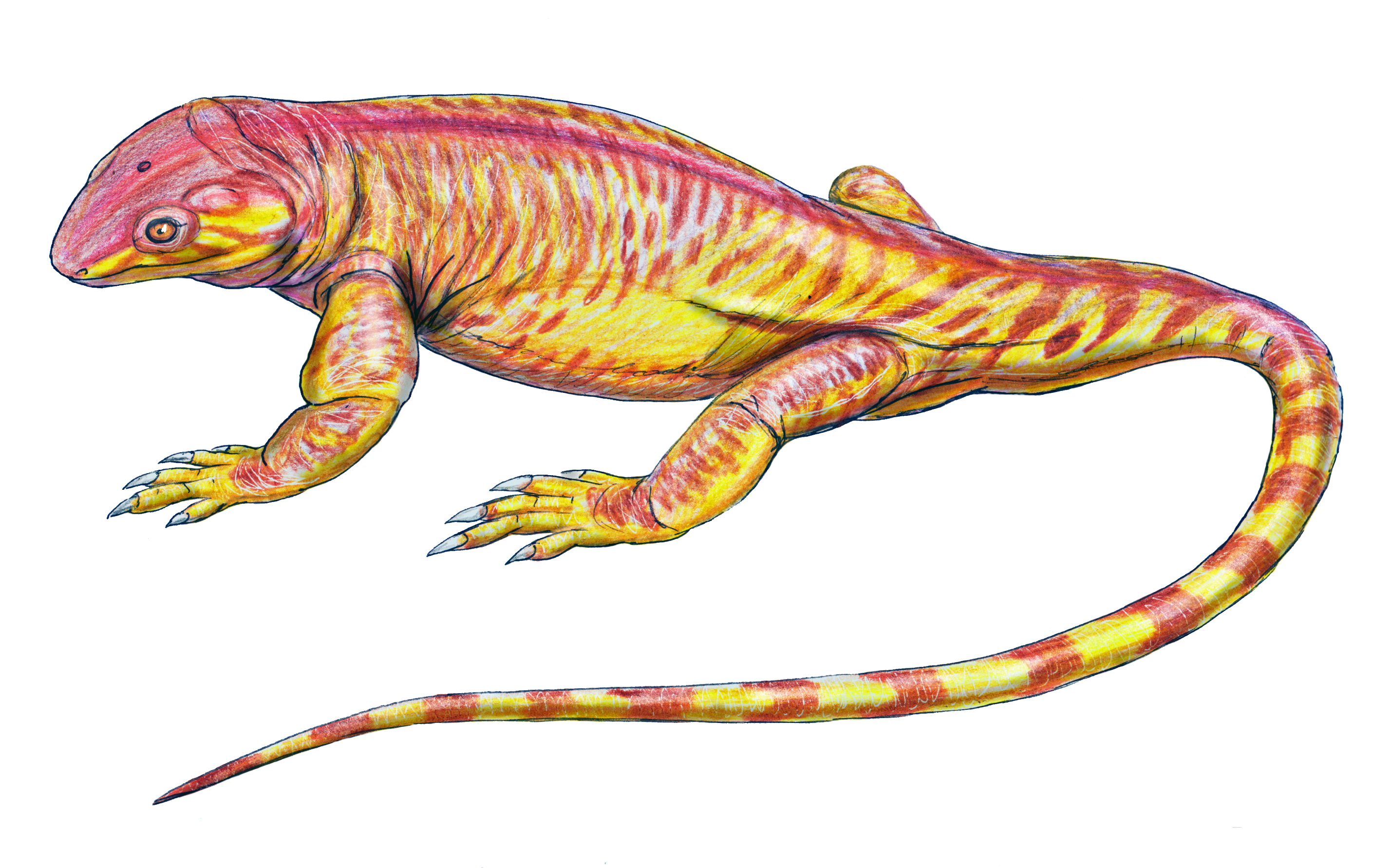 Datheosaurus macrourus , caseasaur from Nowa Ruda (Late Carboniferous - Gzhelian - of Poland)